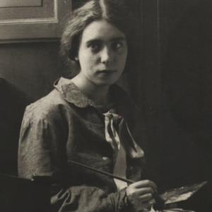 La pittrice Pina Calì